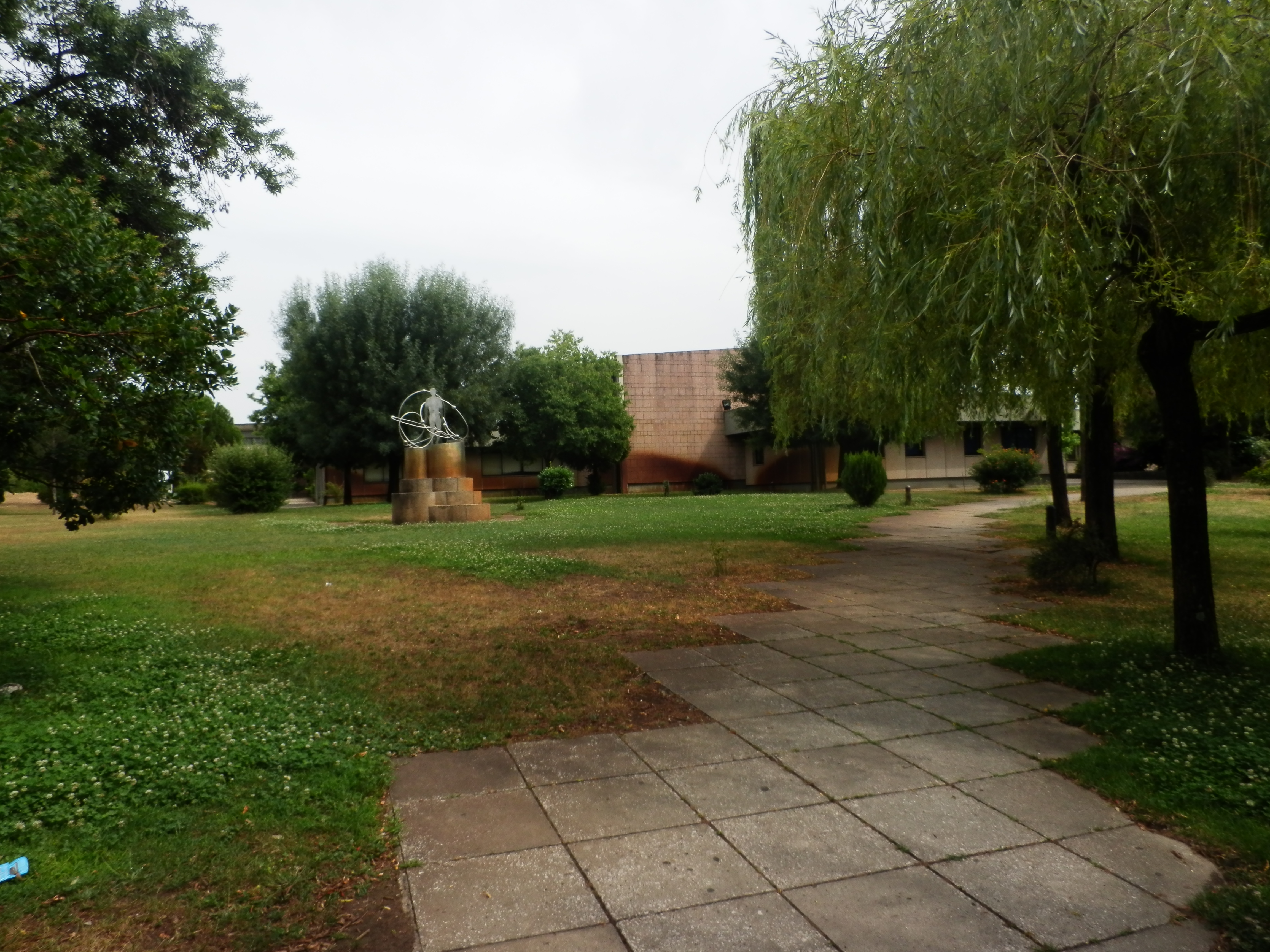 Escola Superior de Educação de Castelo Branco